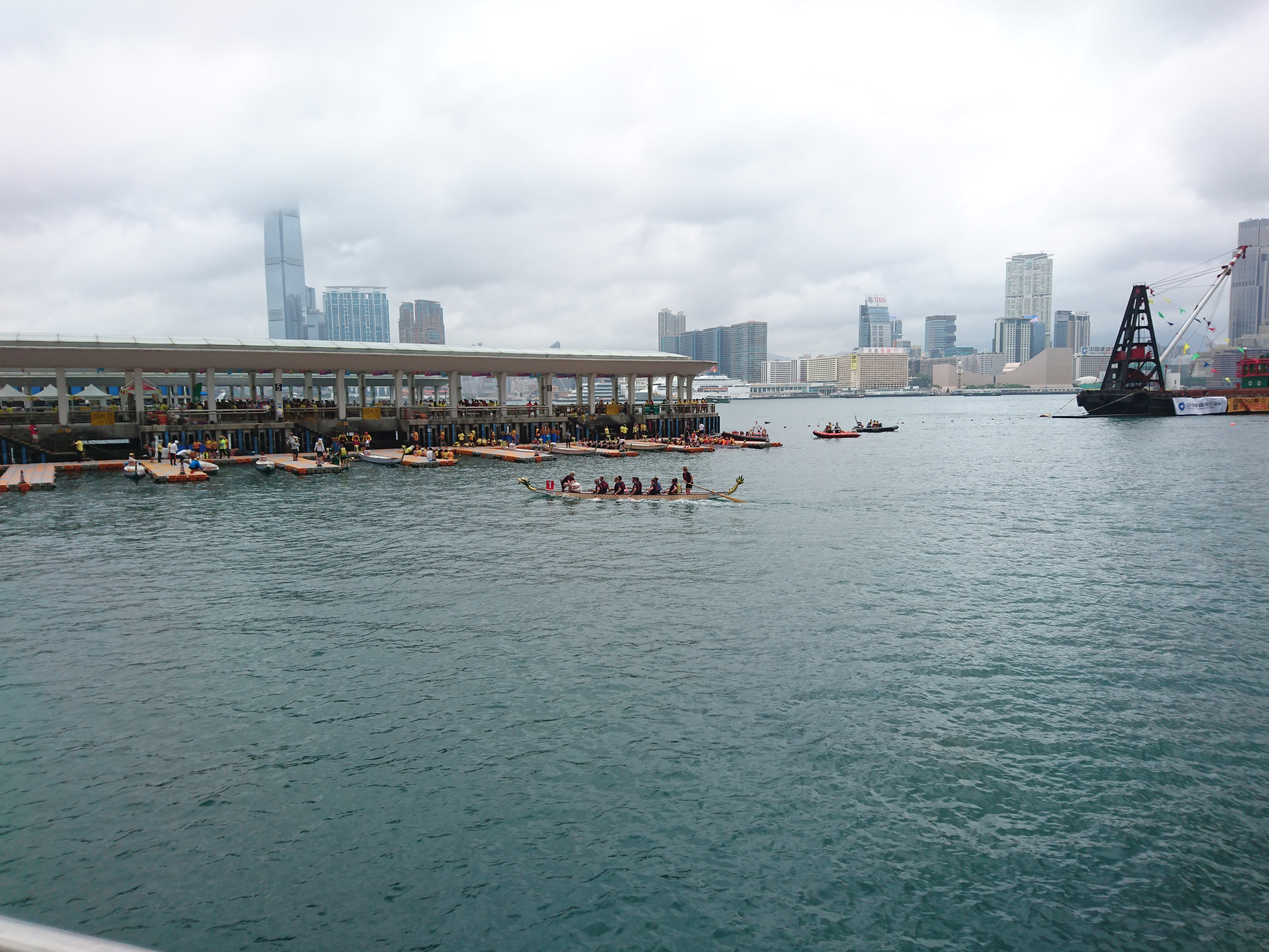 Hong Kong Dragon Boat Carnival Race